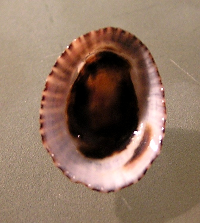 Scutellastra aphanes (Robson, 1986), a limpet from the family Patellidae; South Africa